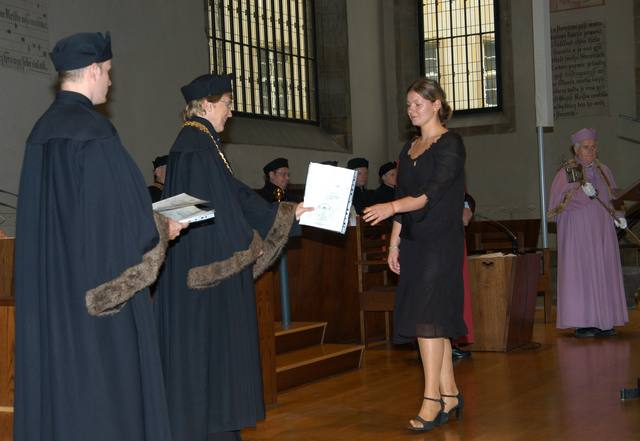 Academic ceremony in the Bethlehem Chapel (Aula of the Czech Technical University)